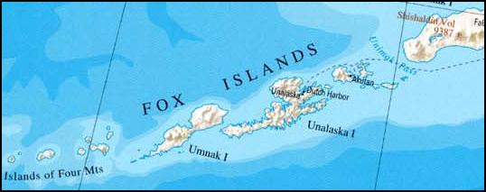 Map of the Fox Islands, Alaska